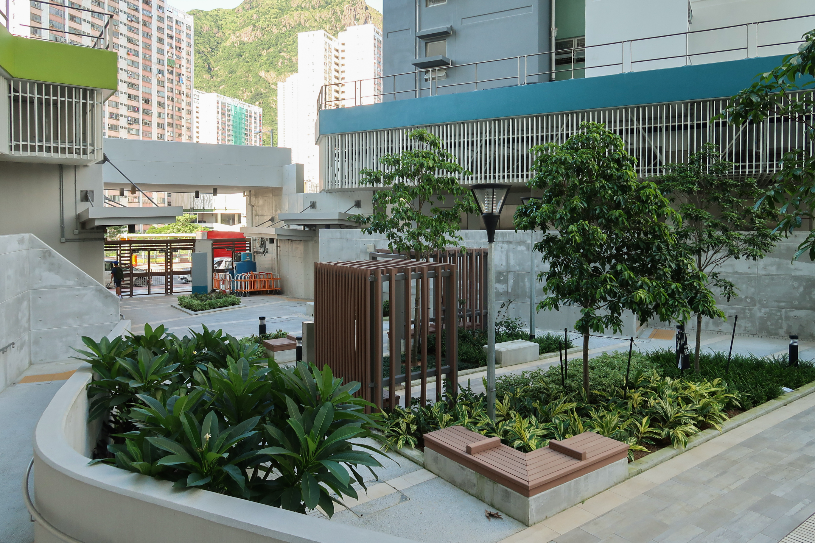 Choi Hing Court Entrance Courtyard